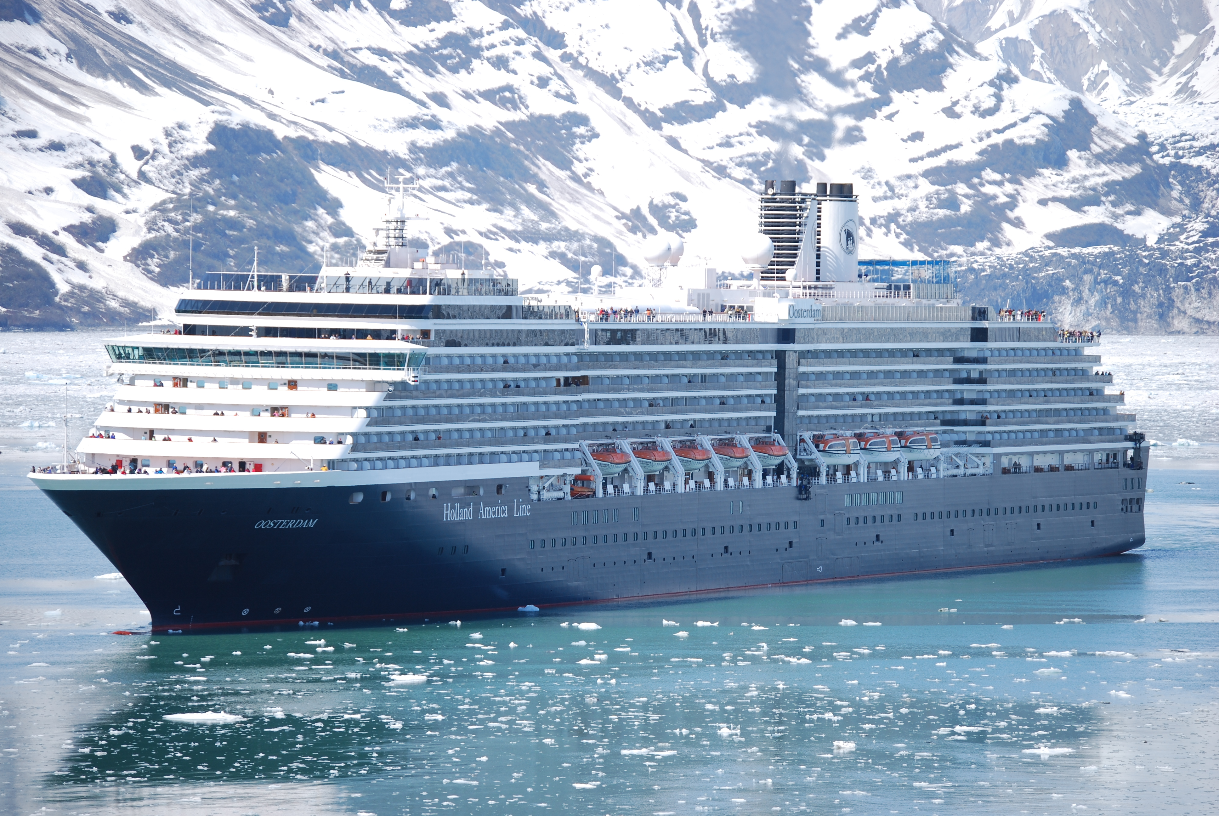 Holland America cruise ship